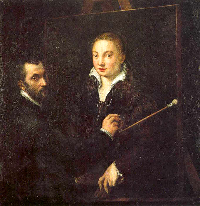 Bernardino Campi painting Sofonisba Anguissola. Portrait by Sofonisba Anguissola.